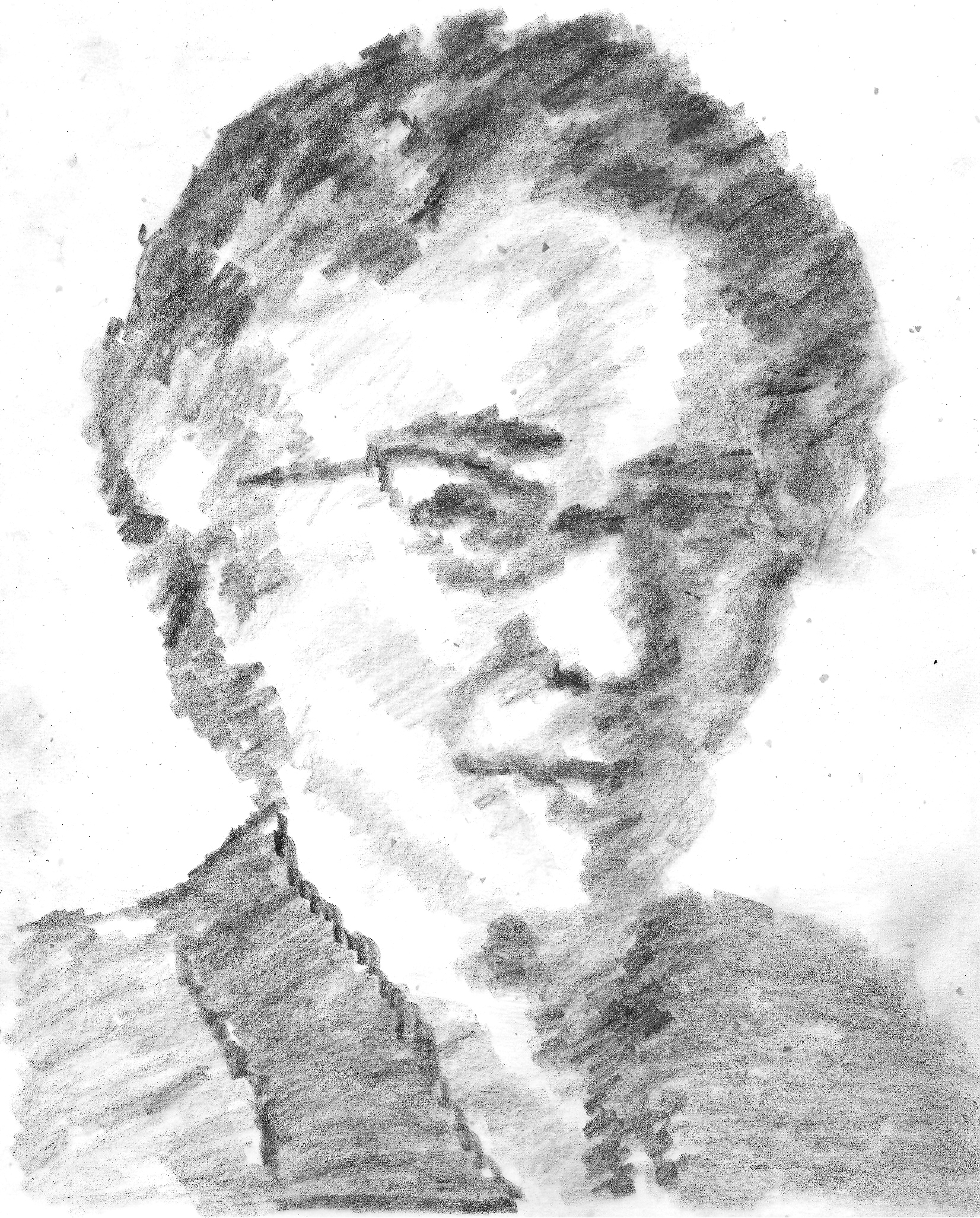 I drew this picture.